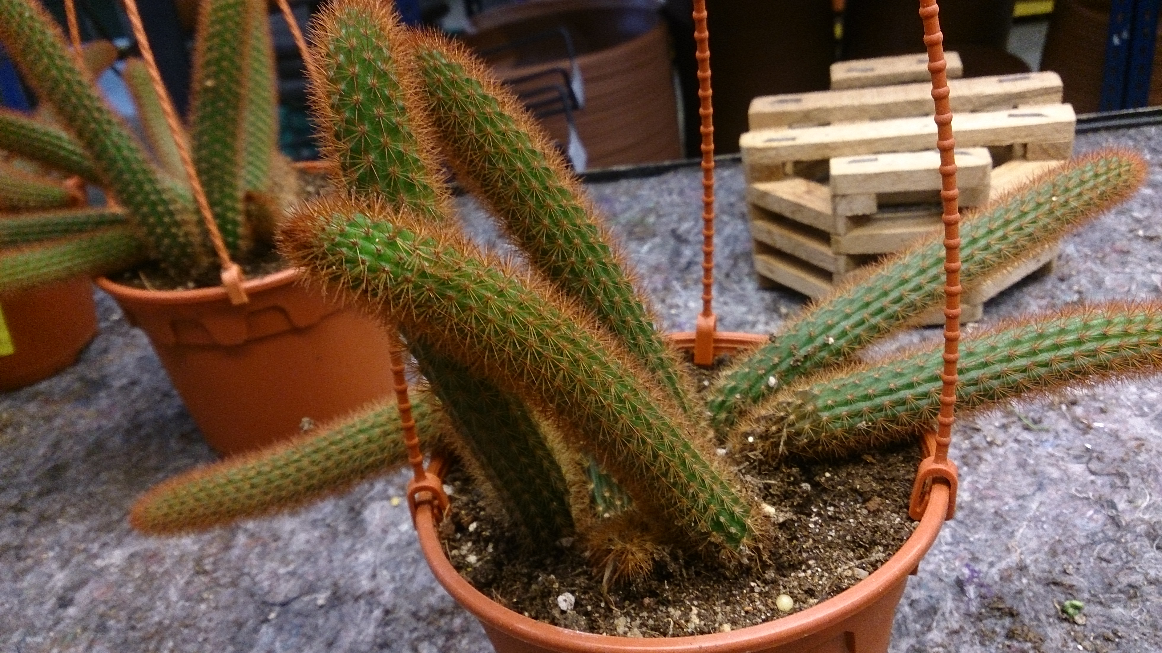 Aporocactus flagelliformis. Common name: Rat Tail Cactus